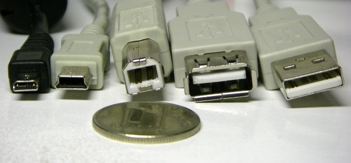 Types of USB connectors (from left to right: male Mini USB (8-pin) B-Type, mini USB, B-type, A-type mother, A-type), with a one-ruble coin (20.5 mm diameter) in front for comparison